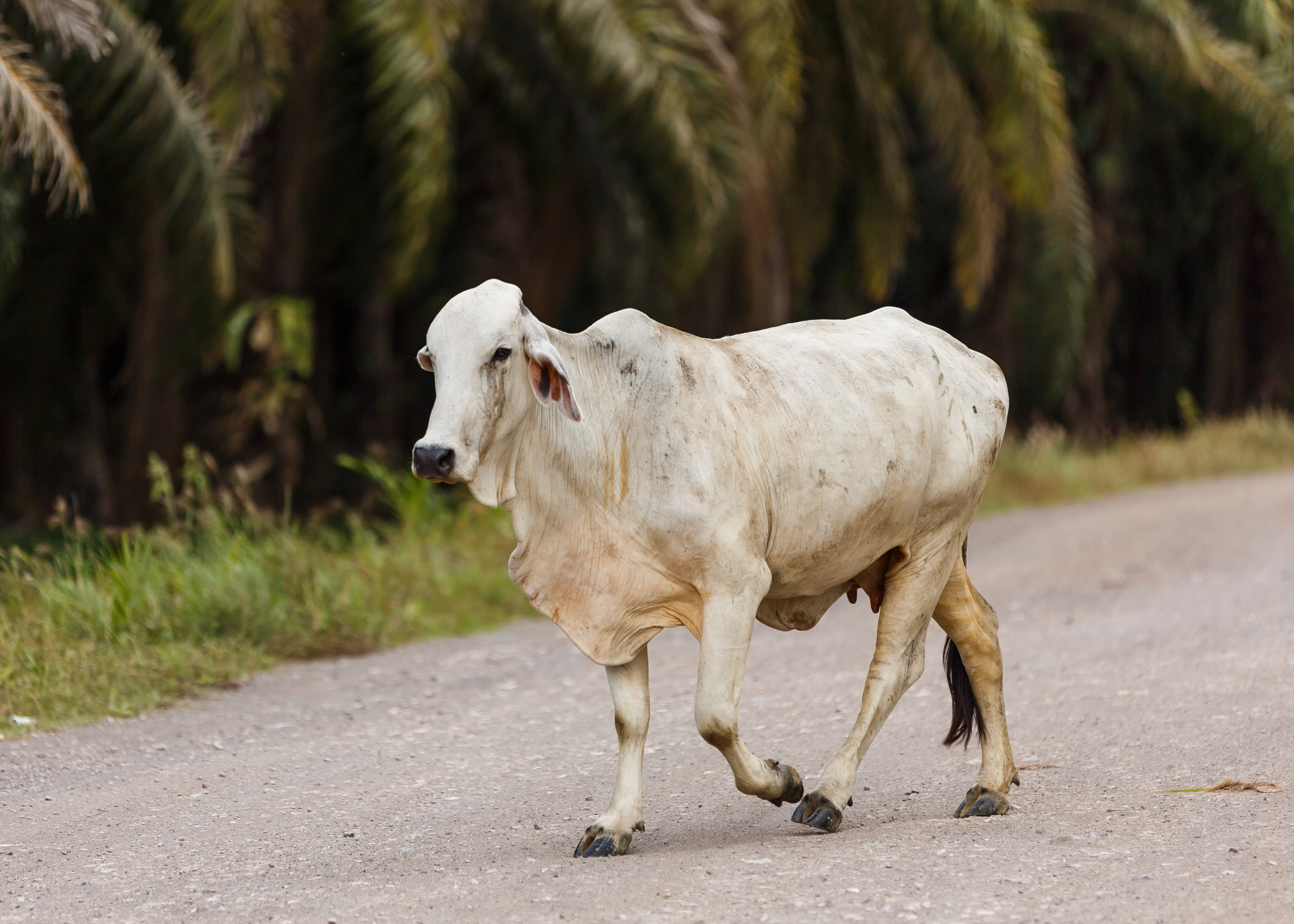 District Kunak, Sabah: A cow at the Lahad Datu - Kunak Road.